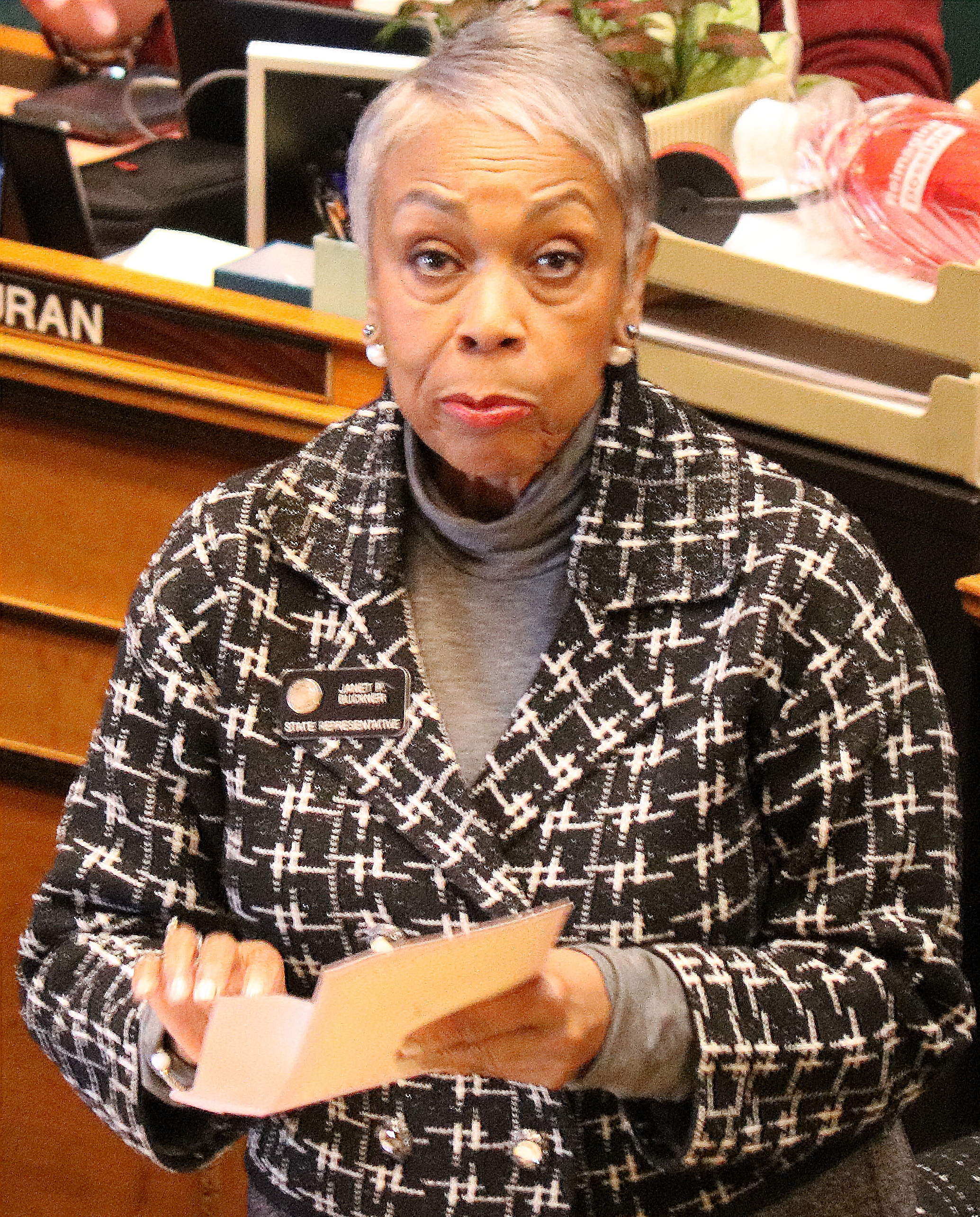 Janet Buckner, a politician from Colorado.